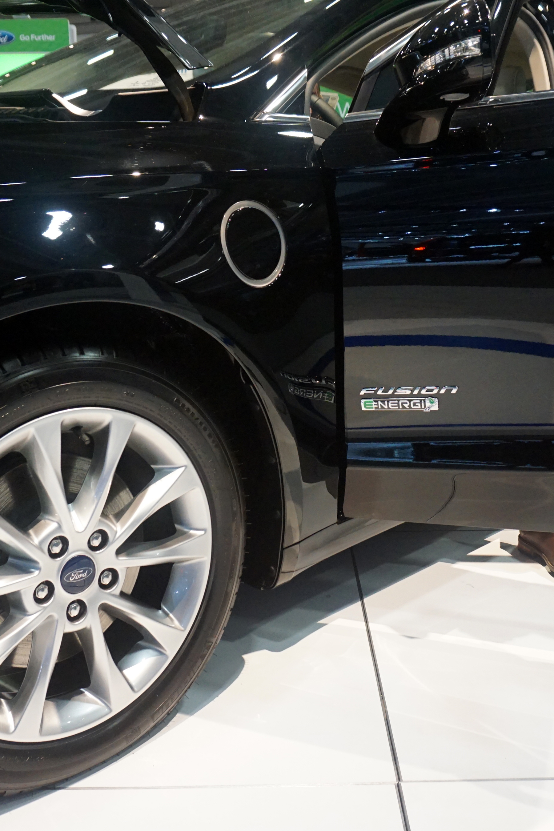 Location of the charging port of the 2017 Ford Fusion Energi plug-in hybrid exhibited at the 2017 Washington Auto Show, DC, US